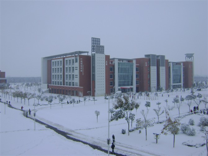 Zhengzhou Institute of Aeronautical Industry Management,located in Zhengzhou City, Henan Province.